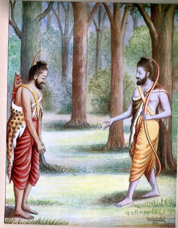 Previously, Mareecha misleads Rama and draws him away from their hermitage. When Laxman reached Rama following the false alarm of Mareecha in golden deer's disguise, Rama got upset over his leaving Sita all alone in the forest-hut. Laxman did not reveal that Sita had used inappropriate language and had forced him to go to Rama's help. Both of them rushed to the hut only to see it vacant. At once they started to search out. They came where wounded Jatayu fell dying. Jatayu whispered that Rawana carried away Sita towards southern direction and lay dead.